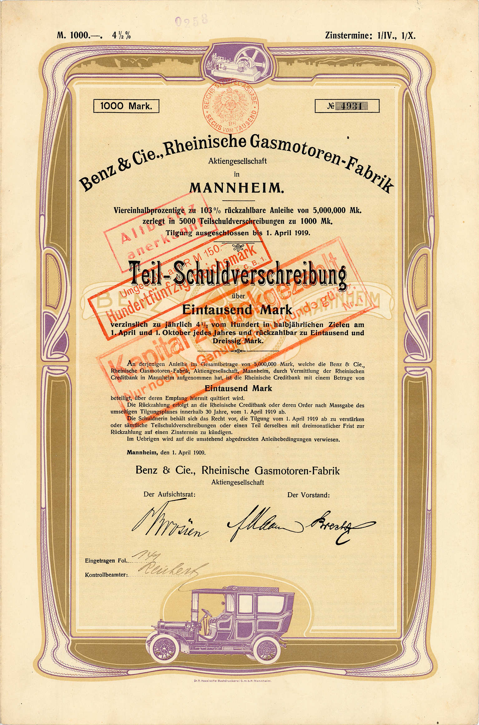 Bond of the Benz & Cie. Rheinische Gasmotoren-Fabrik AG, issued 1. April 1909